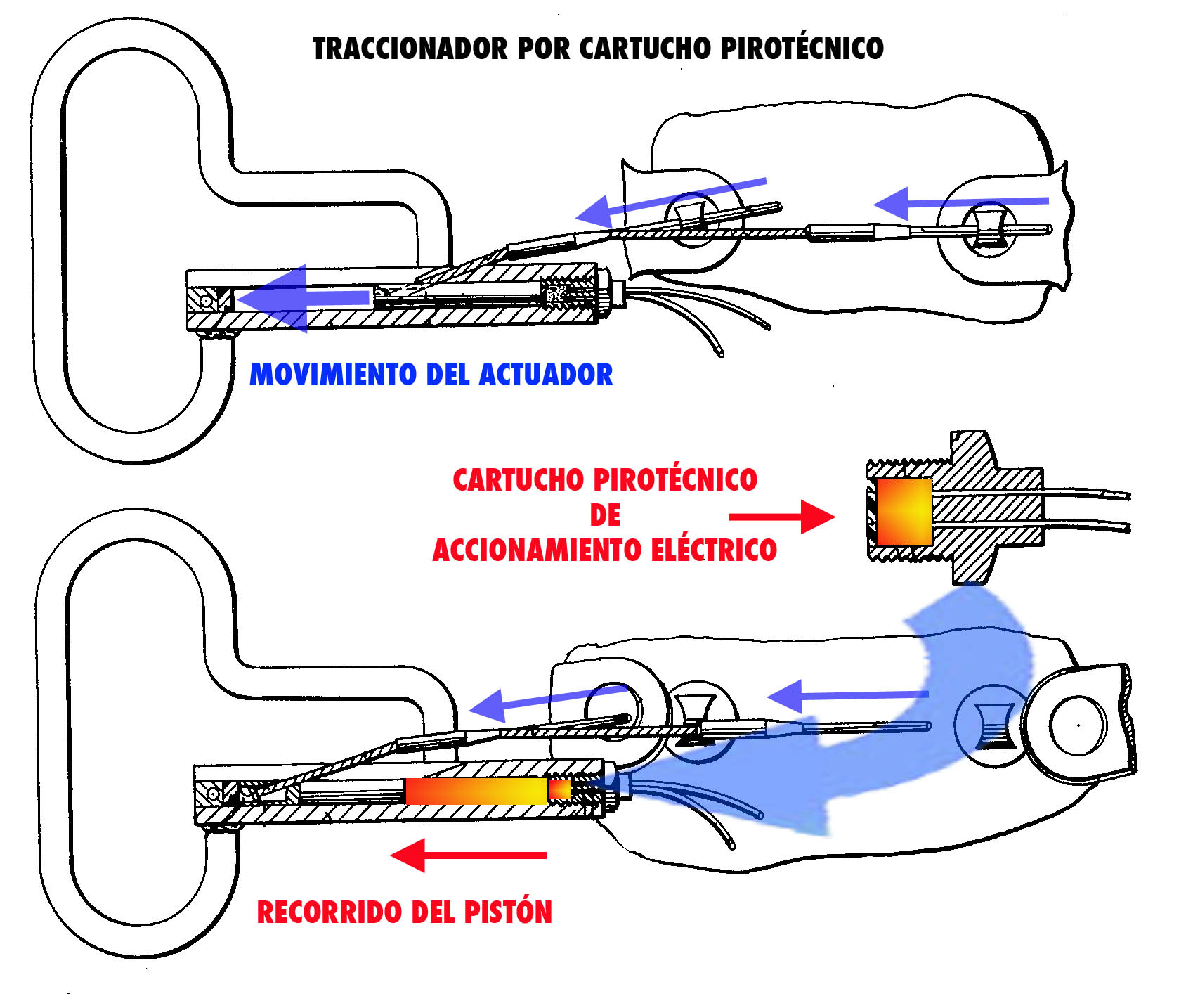 Automatic Activation Device, activated by a pyrocartridge